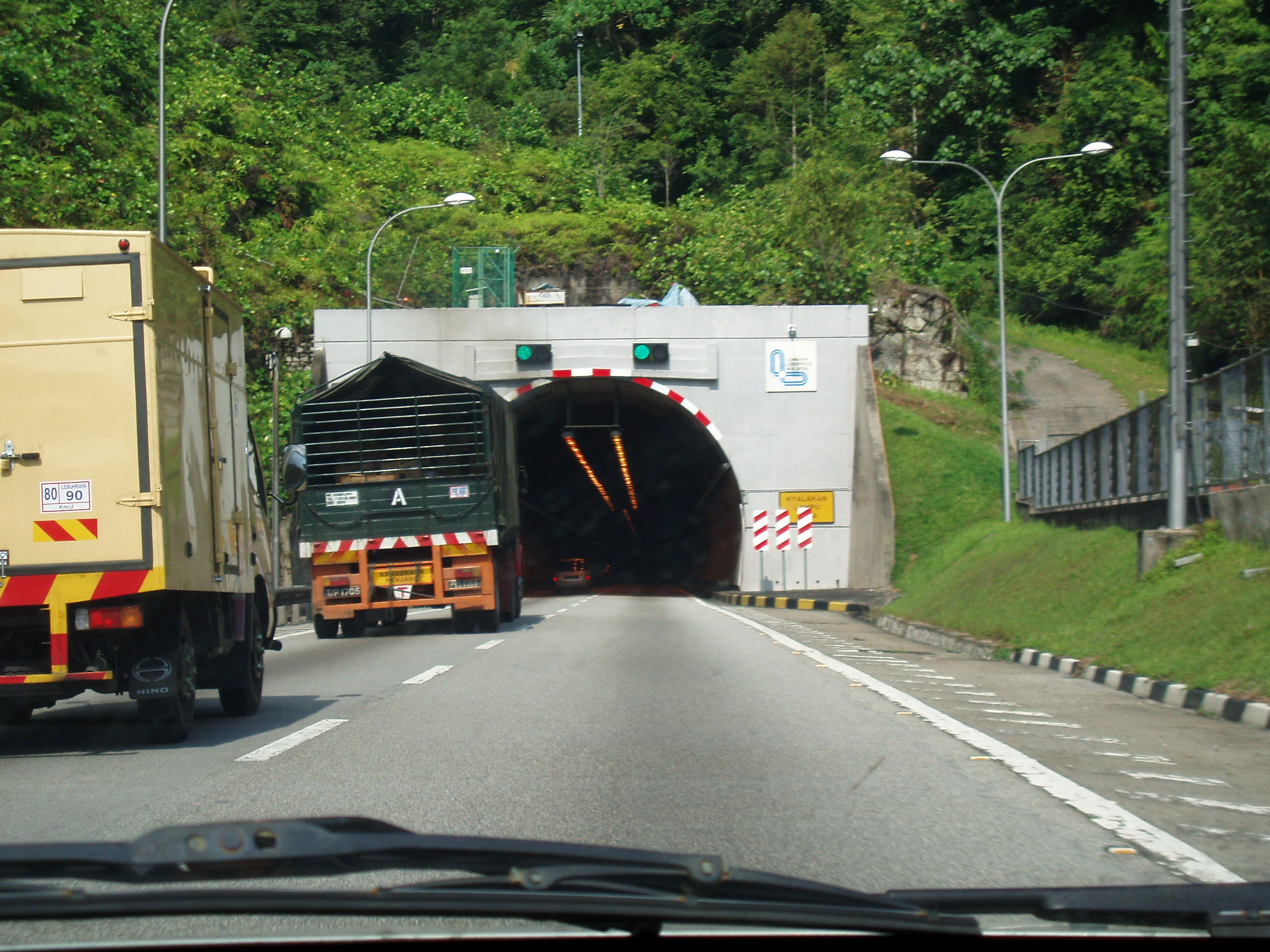 picture of Menora Tunnel